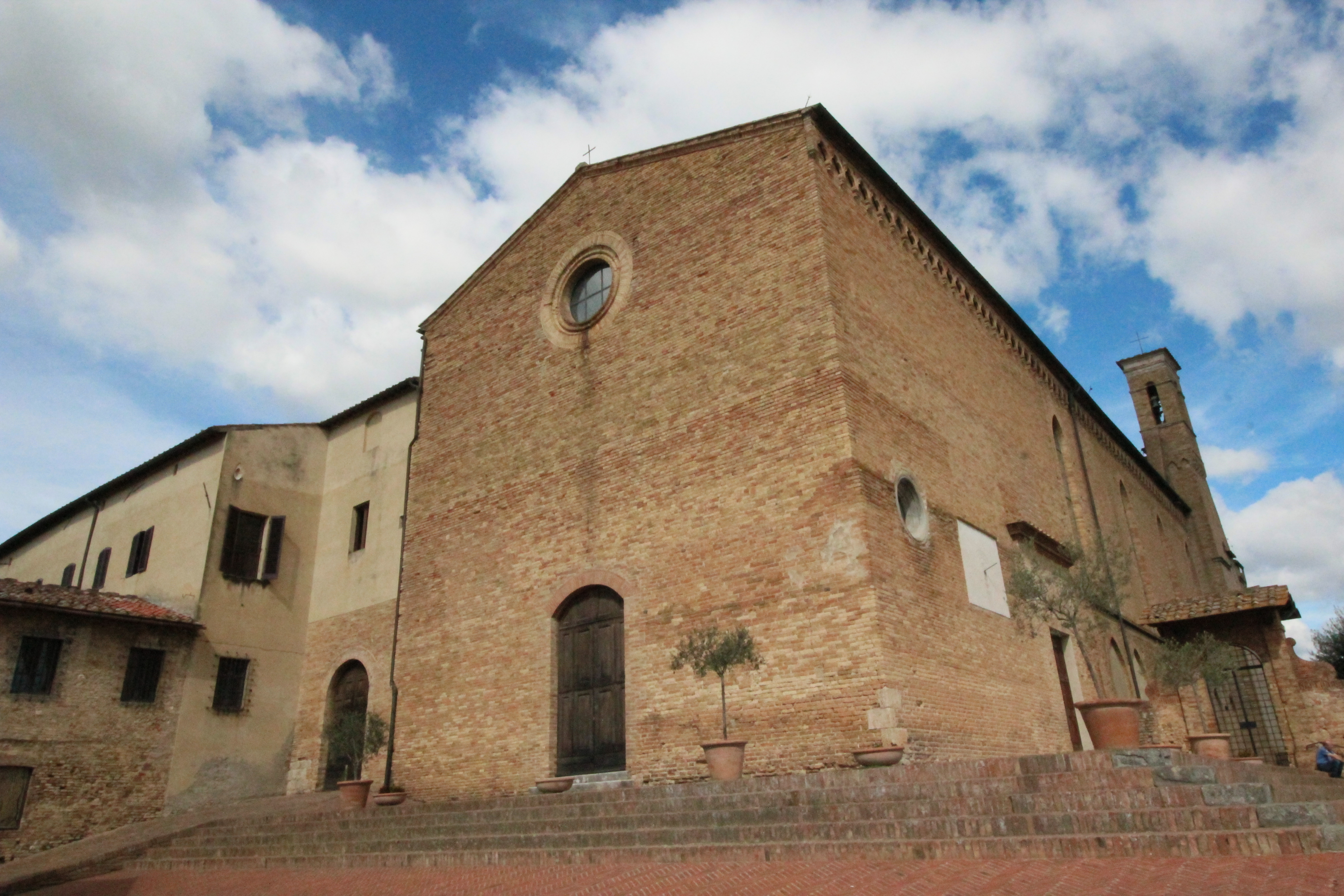 Church of Sant’Agostino in San Gimignano, Province of Siena, Tuscany, Italy